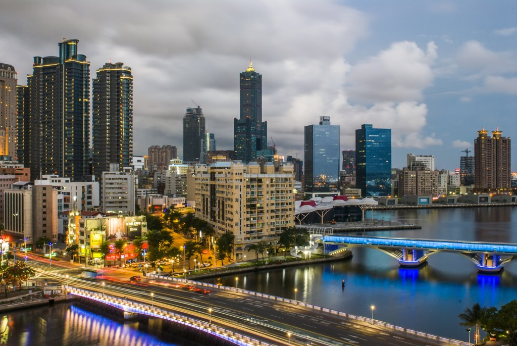 Skyline of KAOHSIUNG, TAIWAN in JUNE 2018